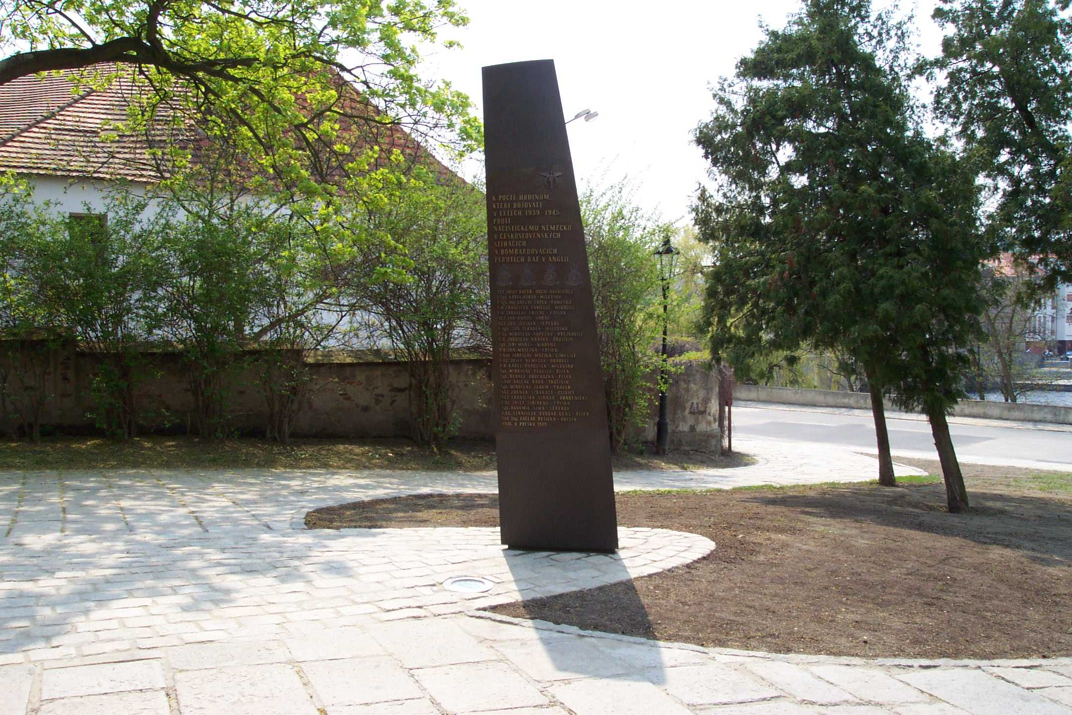 Czechoslovak WWII fighter's memorial in Písek on Fügnerovo náměstí square and Alšovy sady park.